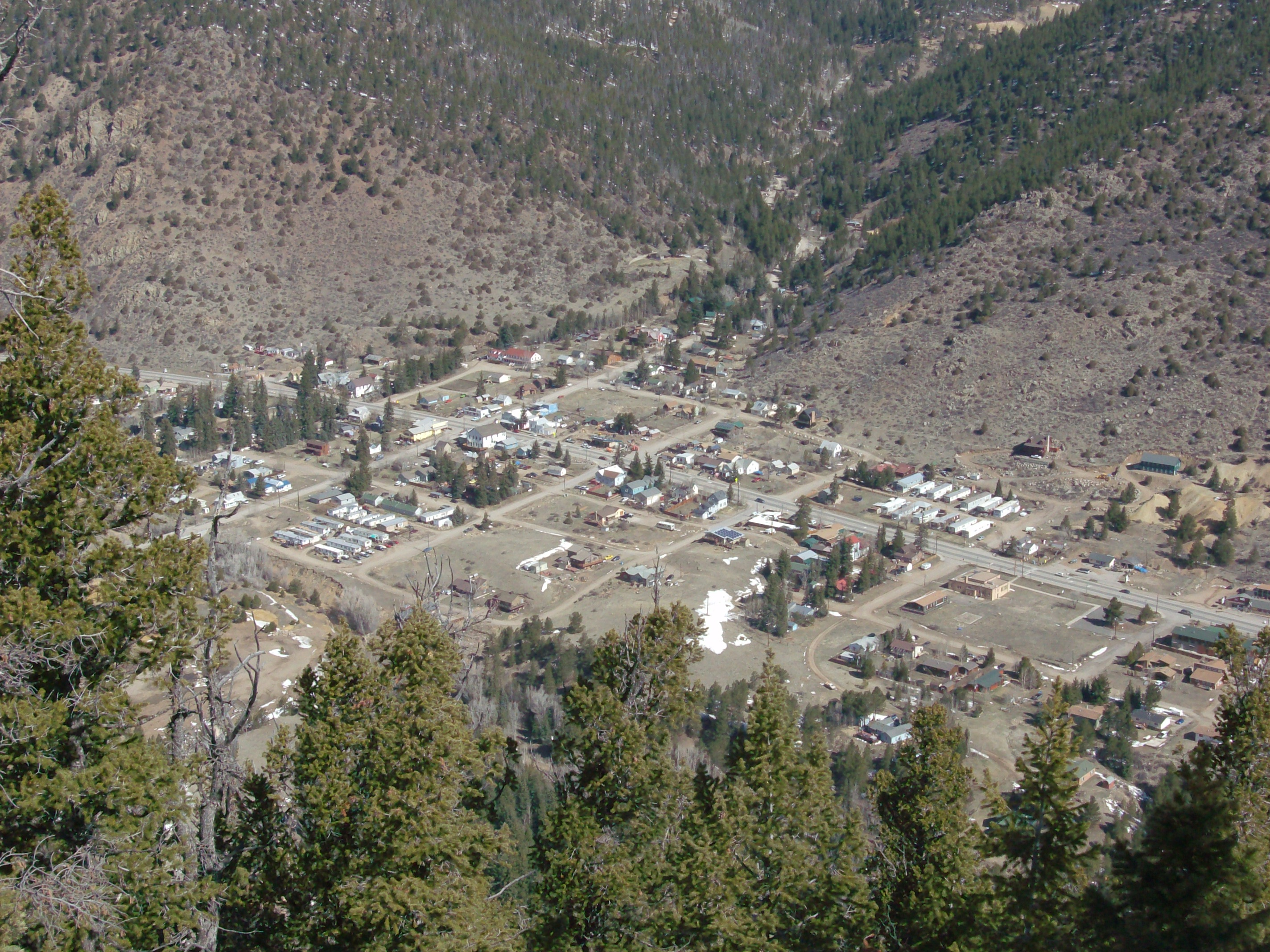 Empire, Colorado cityscape as seen from the summit of Douglas Mountain.